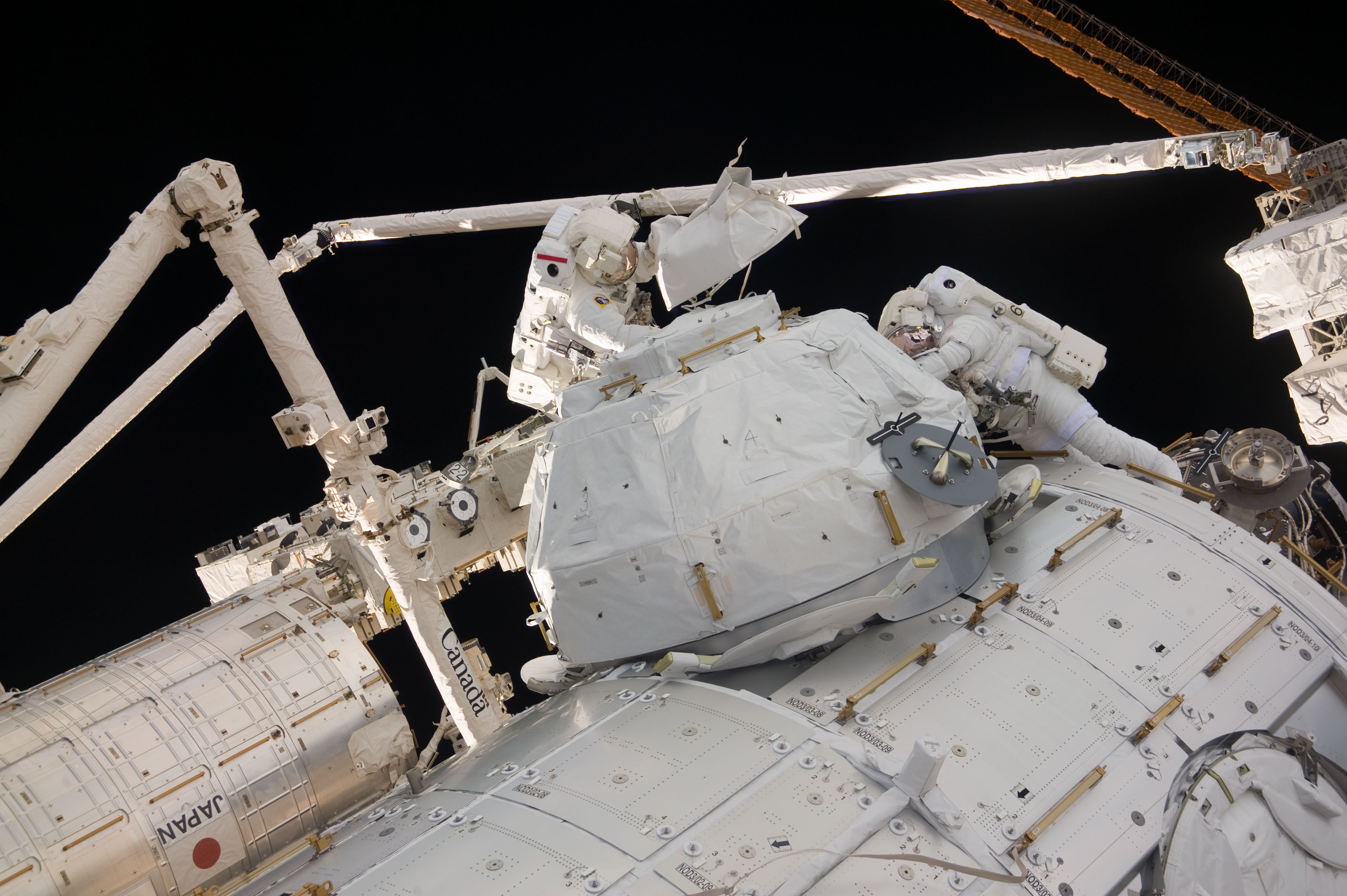 NASA astronauts Robert Behnken (left) and Nicholas Patrick, both STS-130 mission specialists, participate in the mission's third and final session of extravehicular activity (EVA) as construction and maintenance continue on the International Space Station. During the five-hour, 48-minute spacewalk, Behnken and Patrick completed all of their planned tasks, removing insulation blankets and removing launch restraint bolts from each of the Cupola's seven windows.